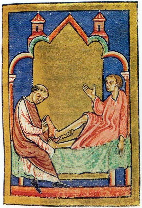 A miniature in the British Library Yates Thomson MS 26, with Saint Cuthbert's shoes healing a sick man